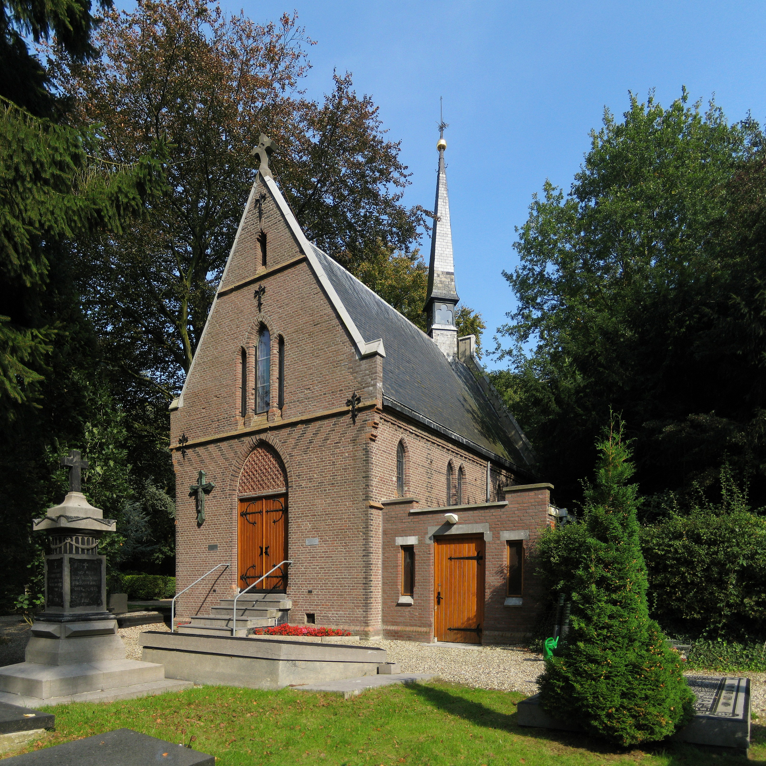 Chapel (1879) on the roman catholic cemetery of the Dutch city of Groningen.